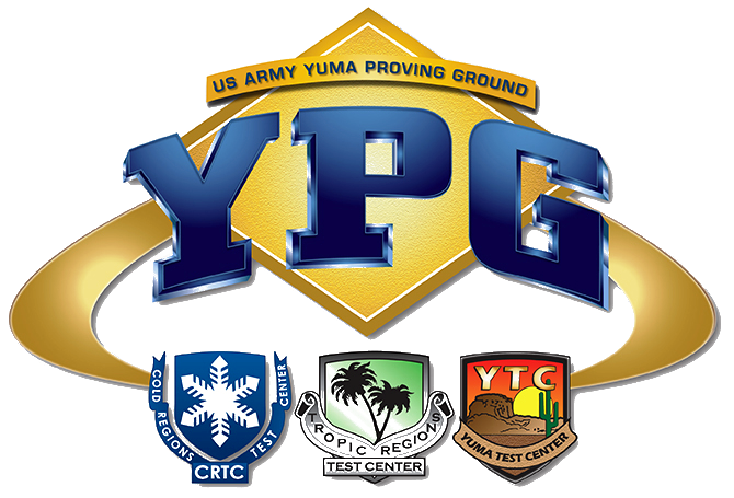 U.S. Army's Yuma Proving Ground Crest